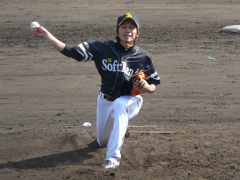 SH-Yuki-Kume20100429